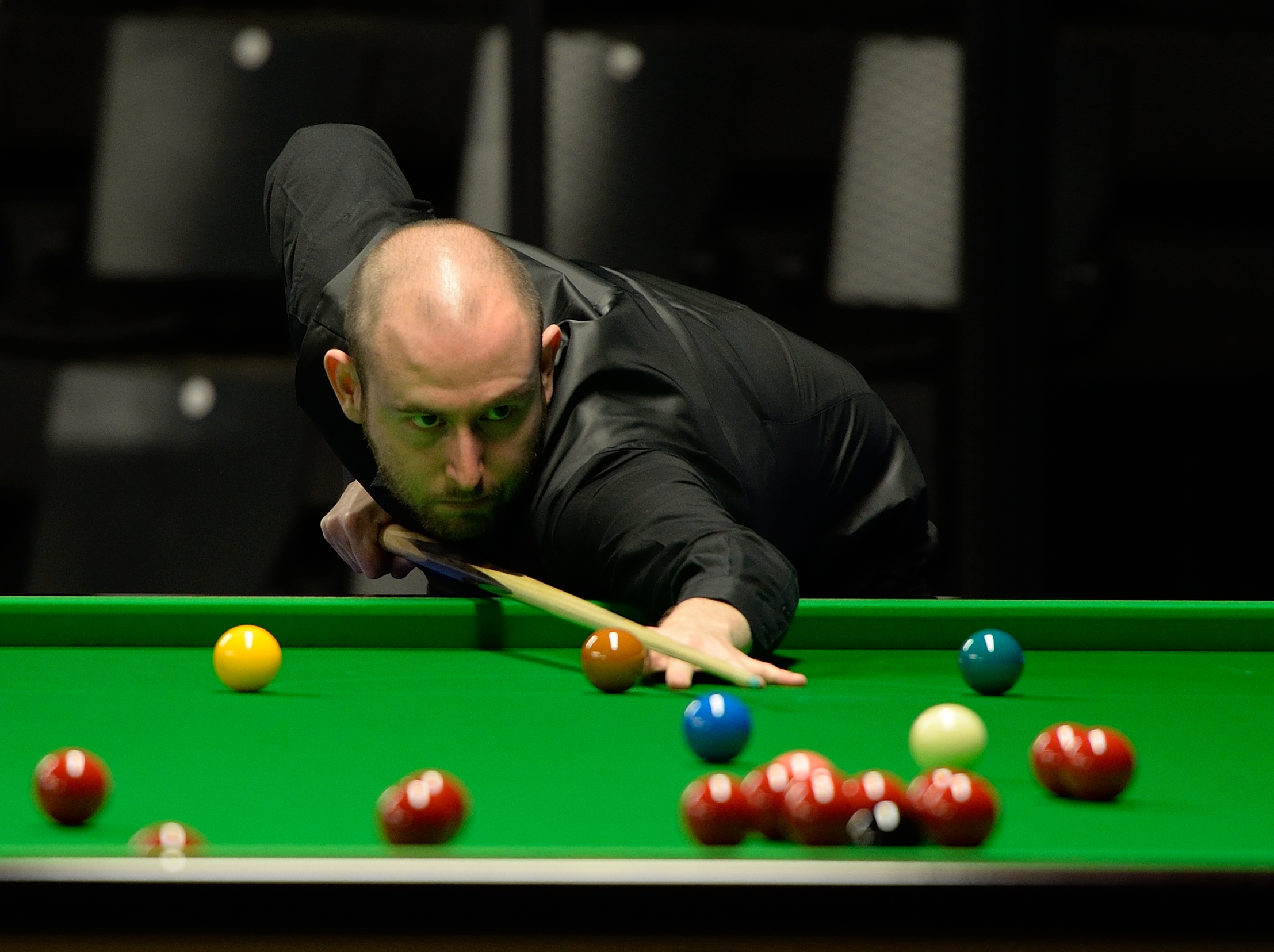 Picture taken in Berlin during the Snooker German Masters in 2015. Matthew Selt.